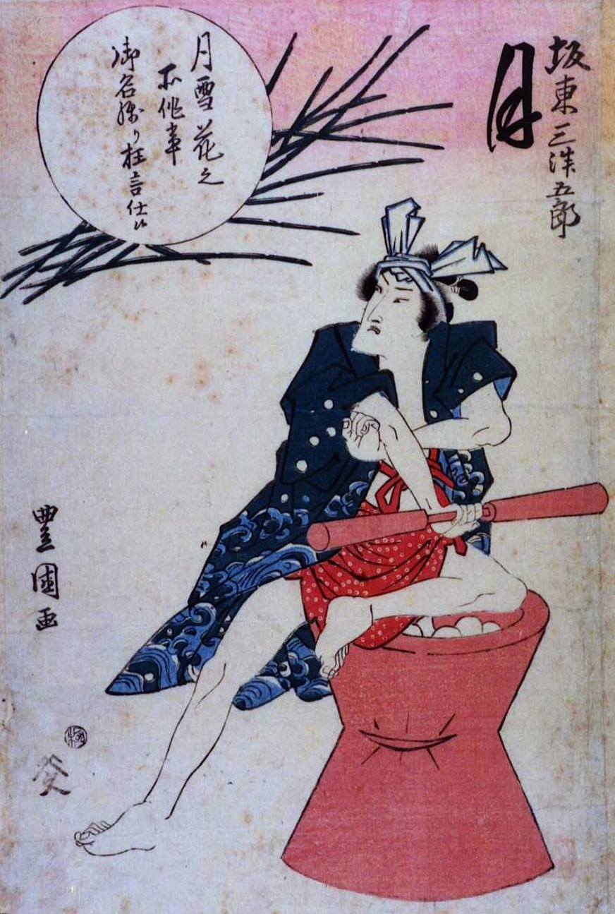 Mitsugrō Bandō III in Tsuki Yuki Hana no Shosa-goto, Bandō Mitsugorō, Tsuki by Toyokuni Utagawa I, depicting the September 1820 Edo Nakamura-za production of Tsuki Yuki Hana Nagori no Bundai.